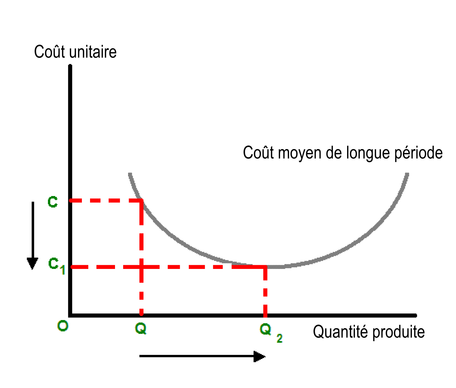 French version of Economies of scale by Sheitan